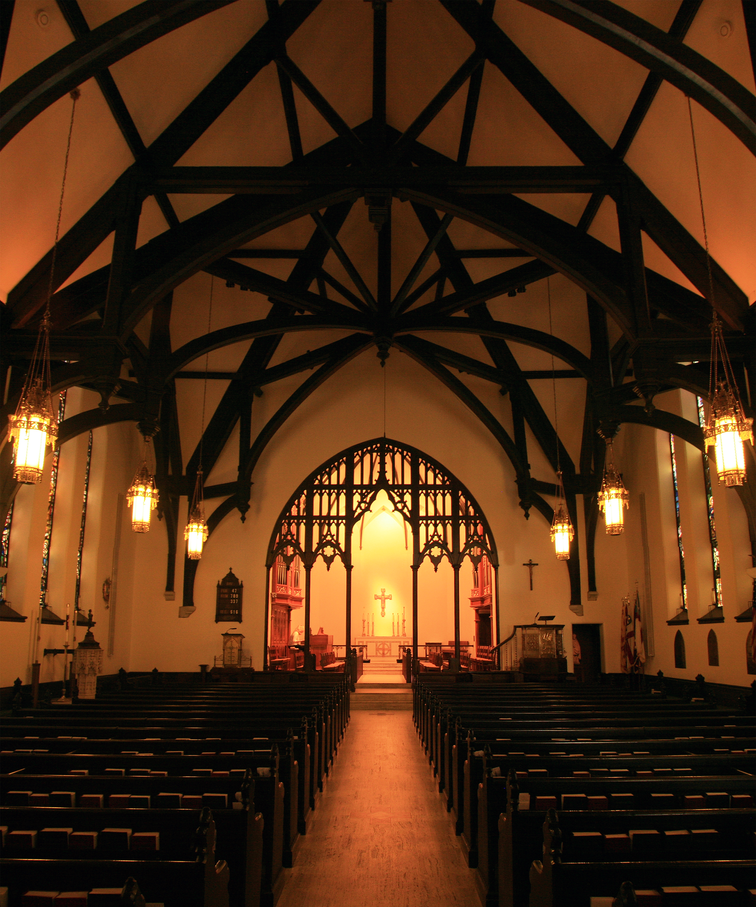 Looking east down the nave of Christ Church Cathedral in Indianapolis, Indiana.